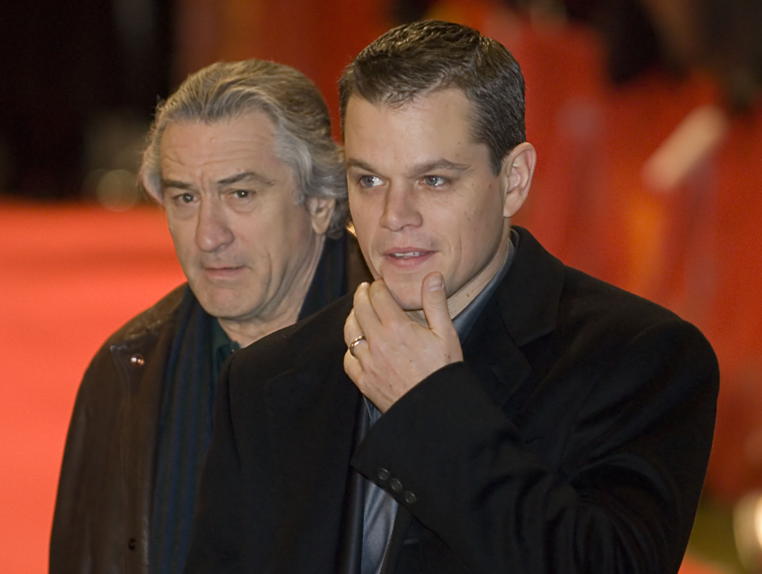 Robert De Niro, Matt Damon Arrival for the premiere of "The good shepherd", Berlinalepalast, Postdamer Platz, Marlene-Dietrich-Platz